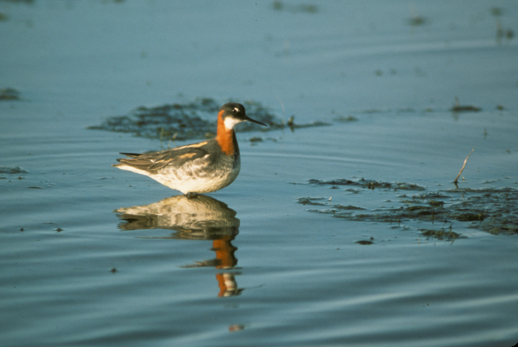 Red-necked Phalarope